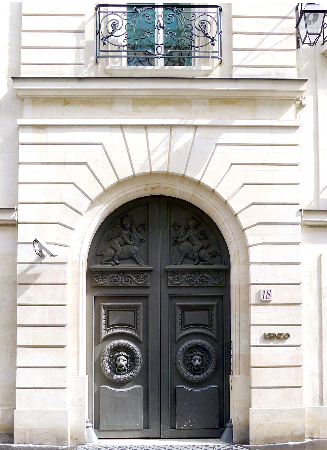 Vivienne street (n°18) - Paris